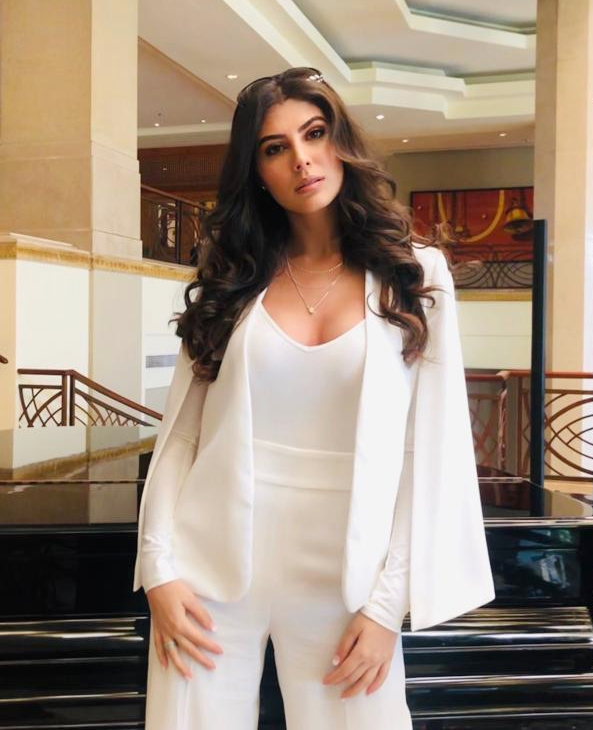 Elnaaz Norouzi at the launch of ZEE5 Abhay